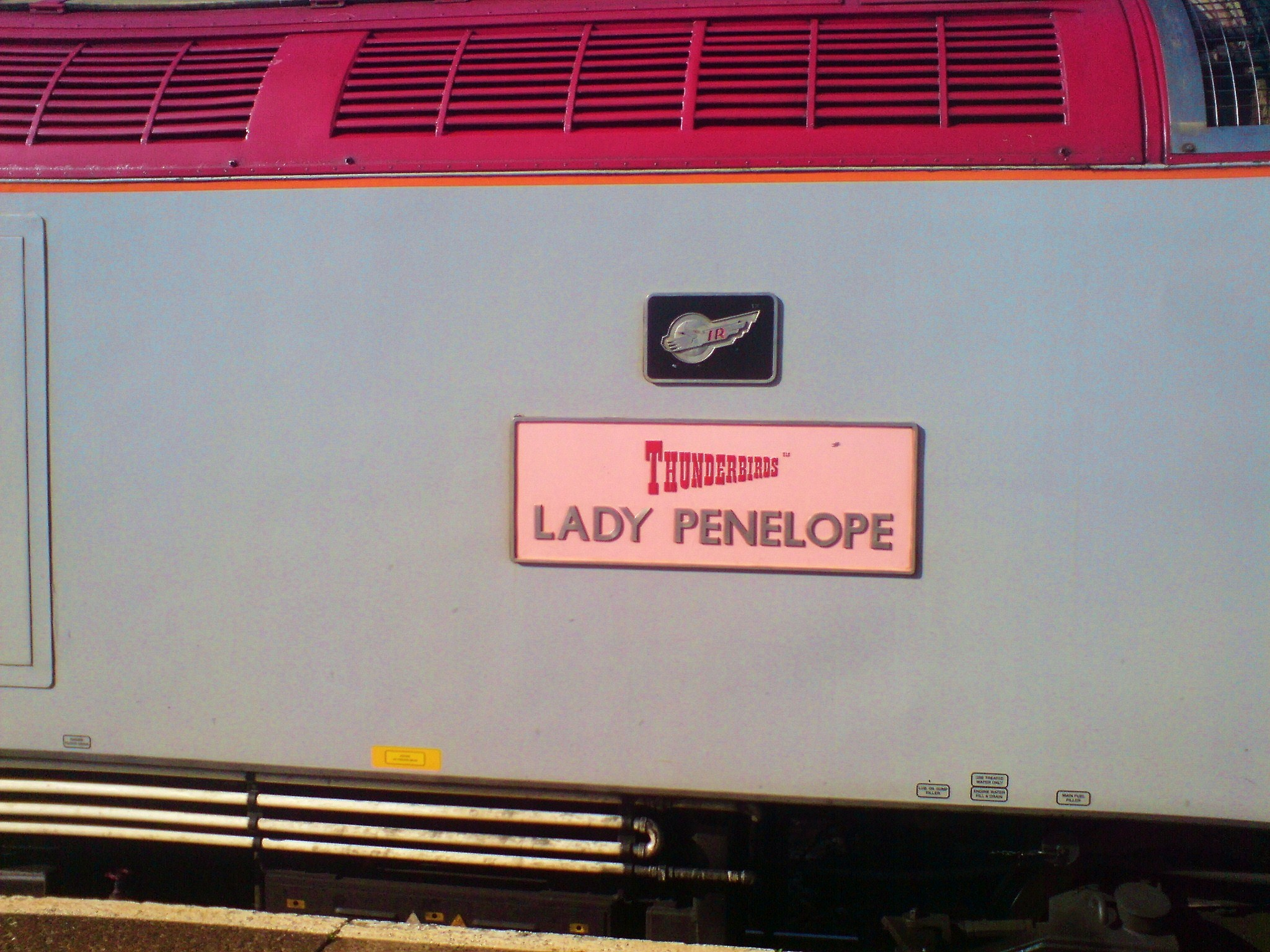 Virgin Trains 57307, "Lady Penelope", carries a unique number plate to her fellow Thunderbird locomotives as she carrives a pink nameplate as opposed to the regular black plates...